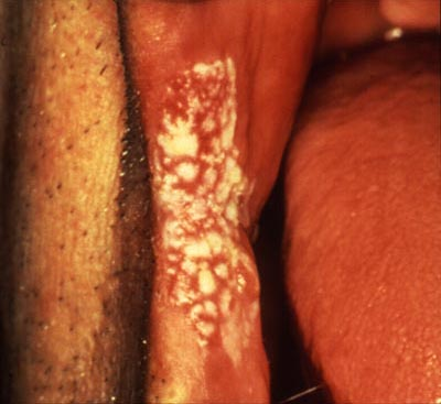 These images are part of the 2013 publication from the NIH "Detecting Oral Cancer: A Guide for Health Care Professionals". Available on the 15/7/14 at Nodular leukoplakia in right commissure. Biopsy showed severe epithelial dysplasia.